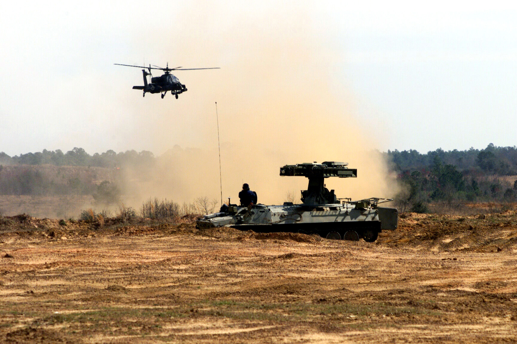 A US Army AH-64 Apache Attach Helicopter moves up to check out an enemy, Russian made SA-13 short-range surface to air missile system; during ASCIET (All Service Combat Identification Evaluation Test) training; held at the US Army's Training and Support Center, Fort Stewart, Georgia.